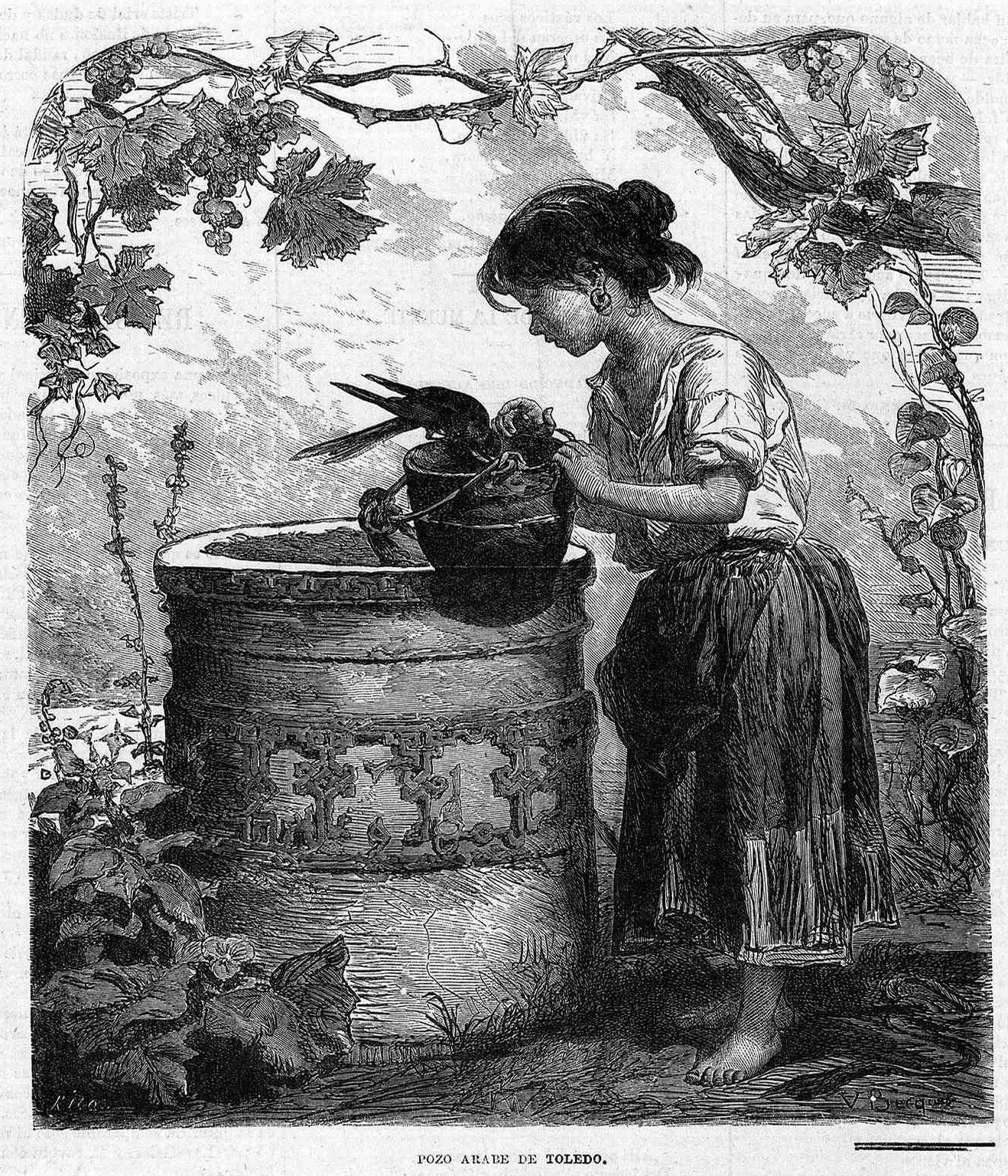 Arabian well head of Toledo (Spain), now in the Victoria and Albert Museum. Drawing of Valeriano Bécquer in 1856.